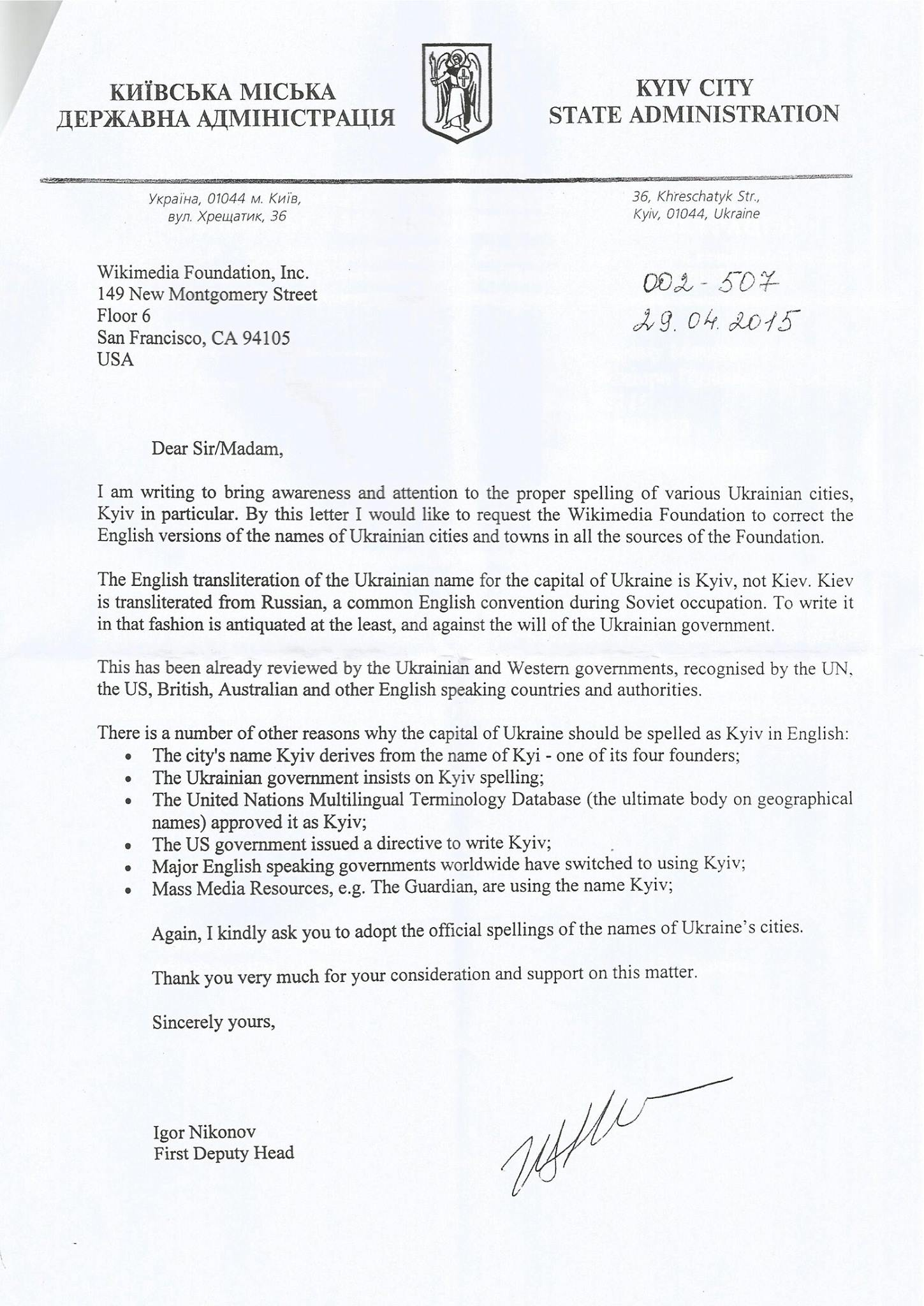 Kyiv City State Administration Letter to WMF